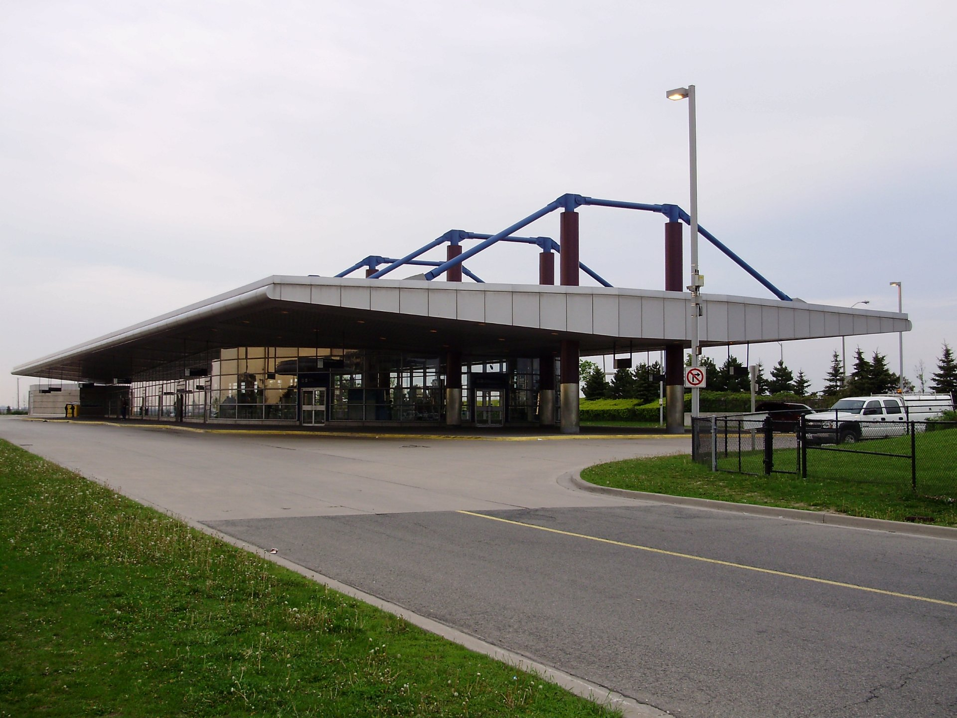 The bus platforms at the Toronto Transit Commission's Downsview station, serving TTC and Viva buses.